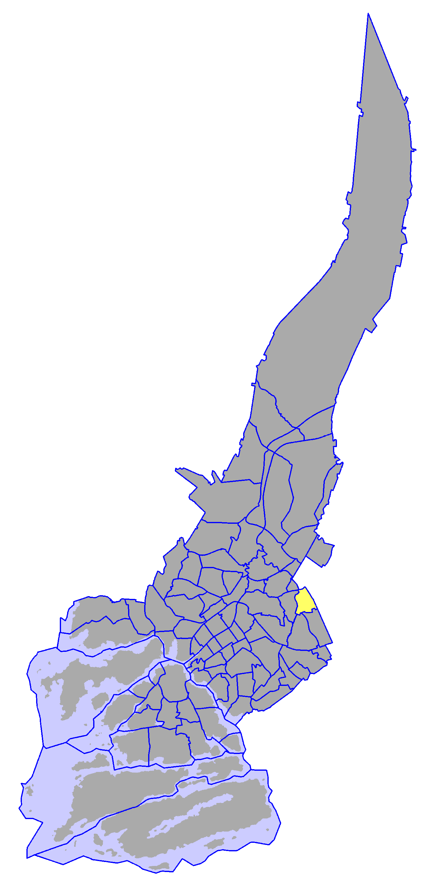 District of Kohmo, in Turku